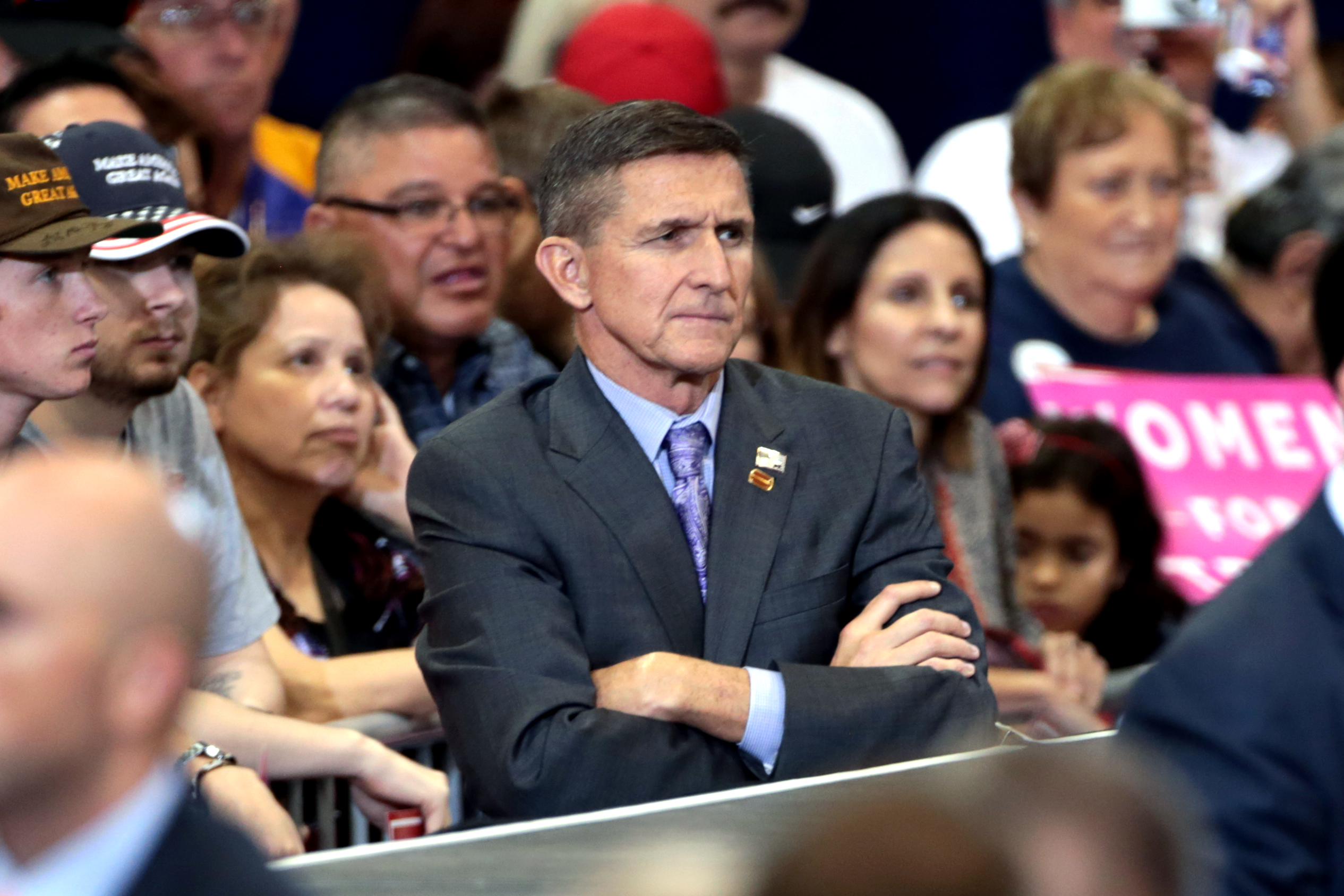 Retired U.S. Army lieutenant general Michael Flynn at a campaign rally for Donald Trump at the Phoenix Convention Center in Phoenix, Arizona.